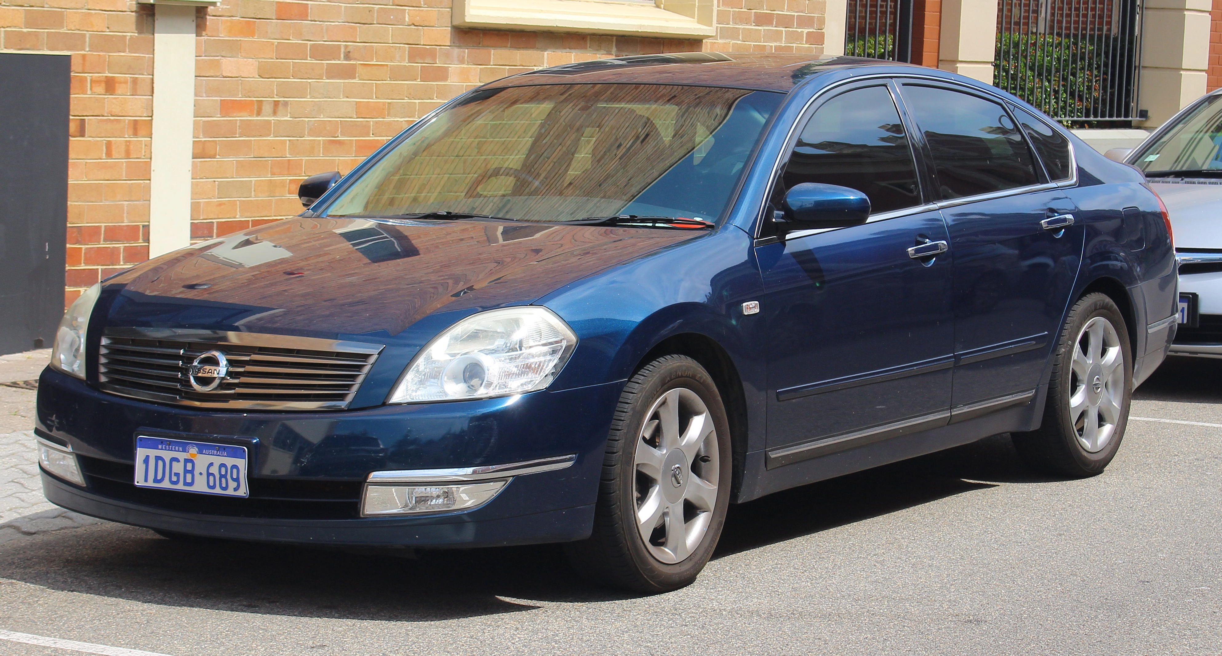 2007-2009 Nissan Maxima (J31 MY06) Ti sedan. Photographed in Fremantle, Western Australia, Australia.